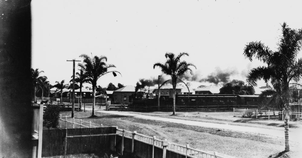 Steam train crossing Palm Avenue, Shorncliffe, Brisbane, ca.1925